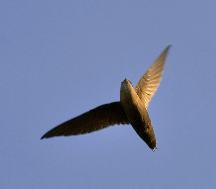 A Chimney Swift flying in Austin, Texas, USA.